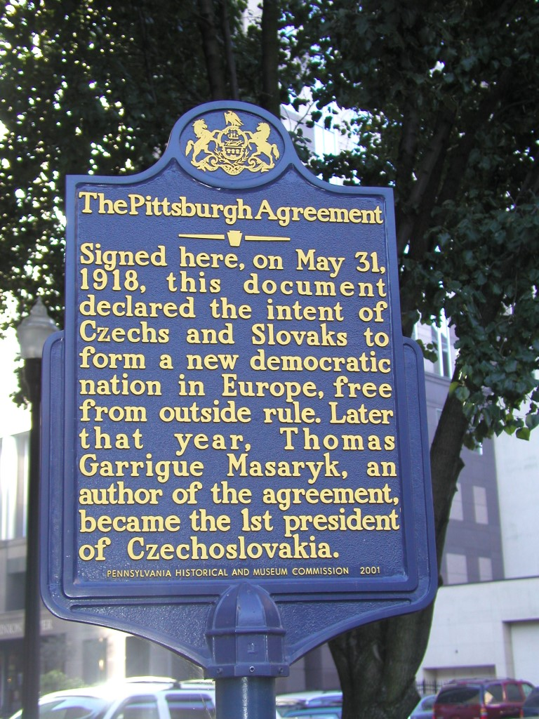 Pittsburgh Agreement Creates Czechoslovakia 1918 Memorial Plaque in Pittsburgh, PA, USA 2004